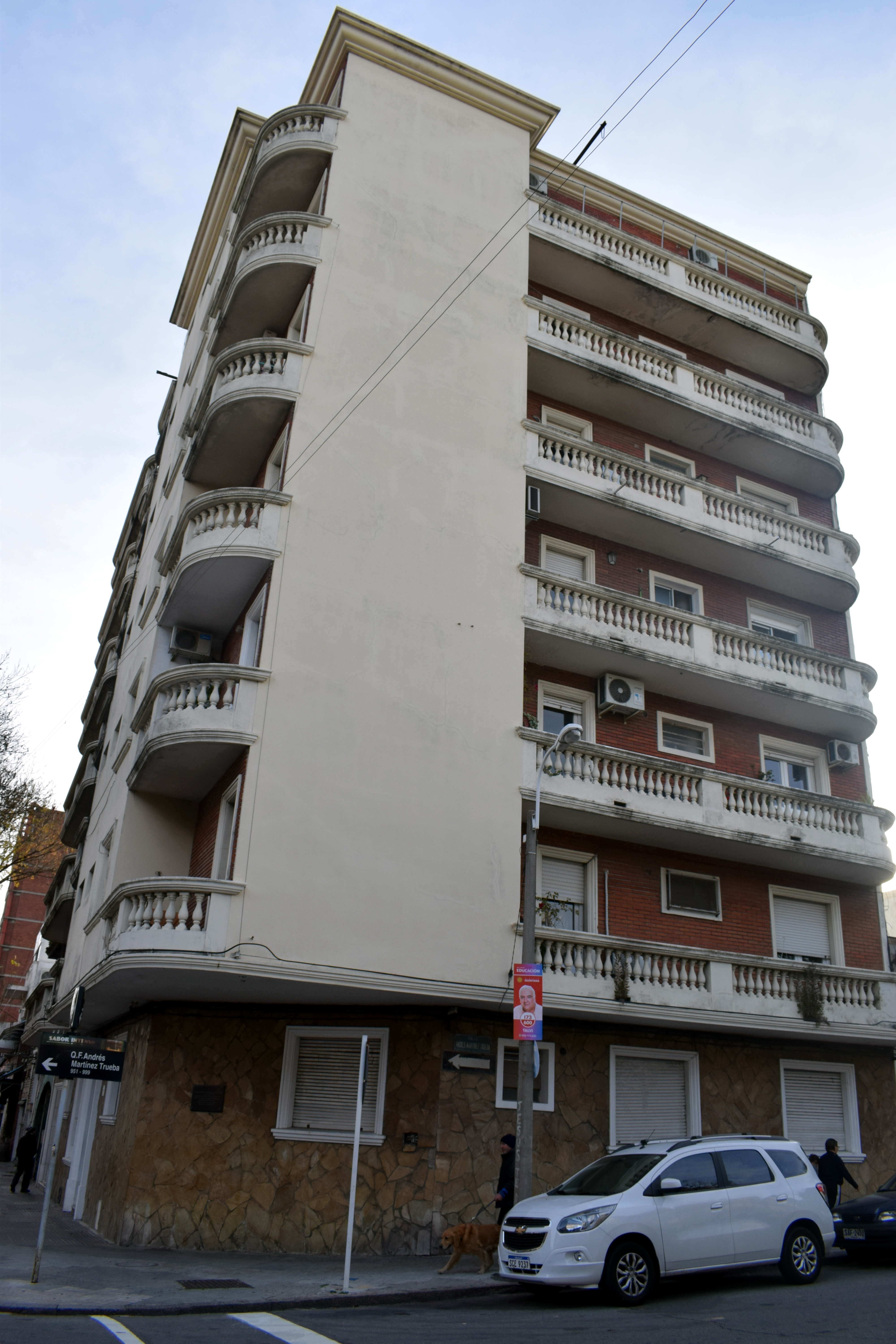 Onetti's house in Montevideo, where he lived until 1975